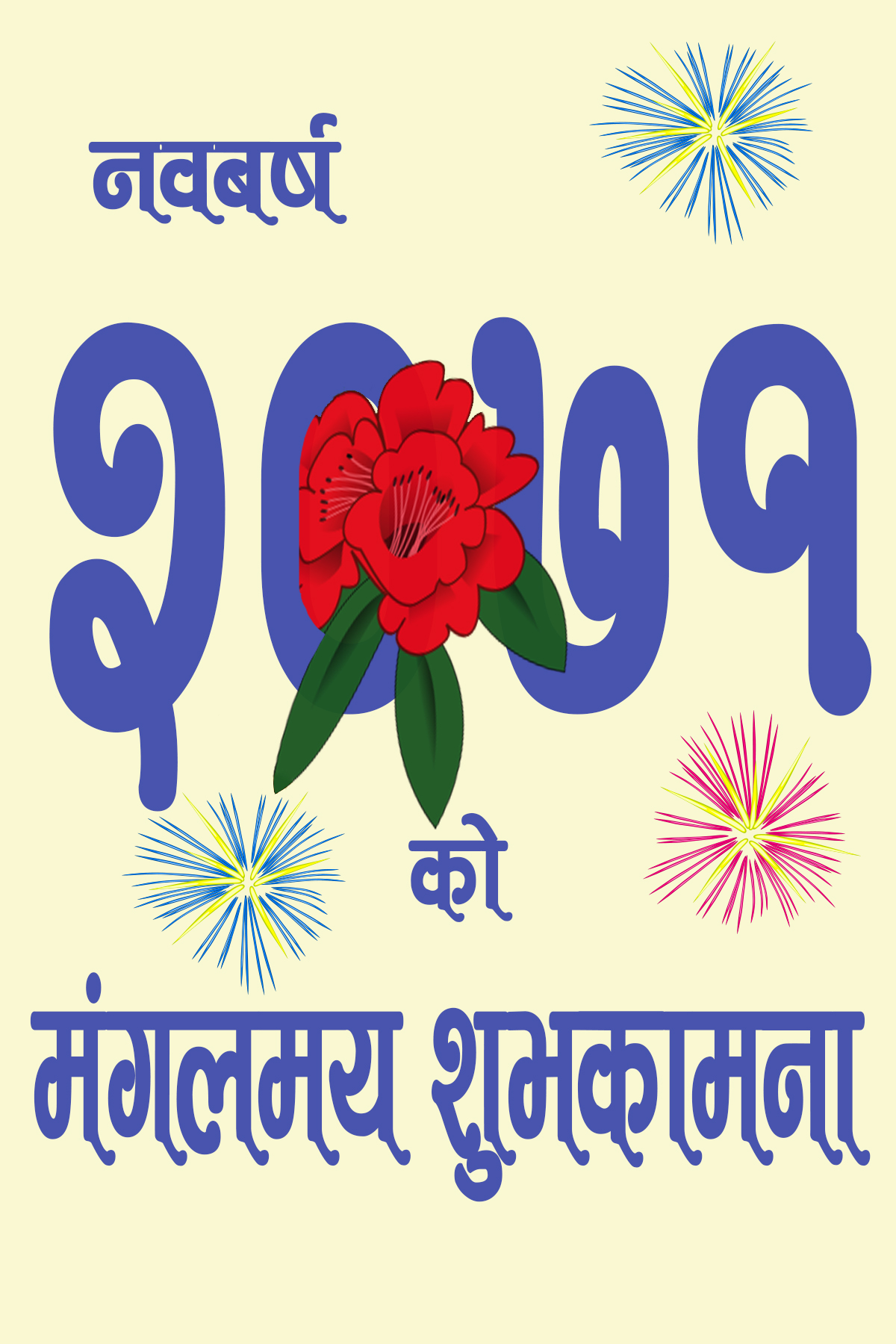 New Year 2071 BS in Nepal.